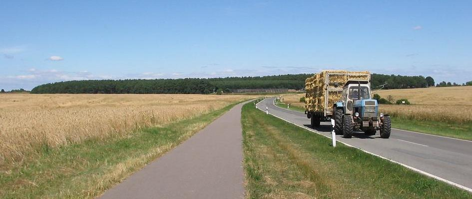 Street and European bikeway „Euroroute R1“ to Bergholz nearby Grubo. The village Grubo is a part of the municipality Wiesenburg/Mark in the district Potsdam Mittelmark, state Brandenburg, Germany. Grubo appertains to the natural preserve Naturpark Hoher Fläming.